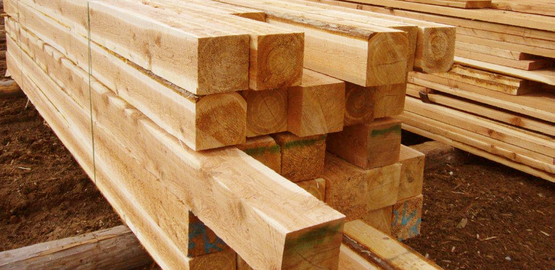 Yellow-cedar lumber.